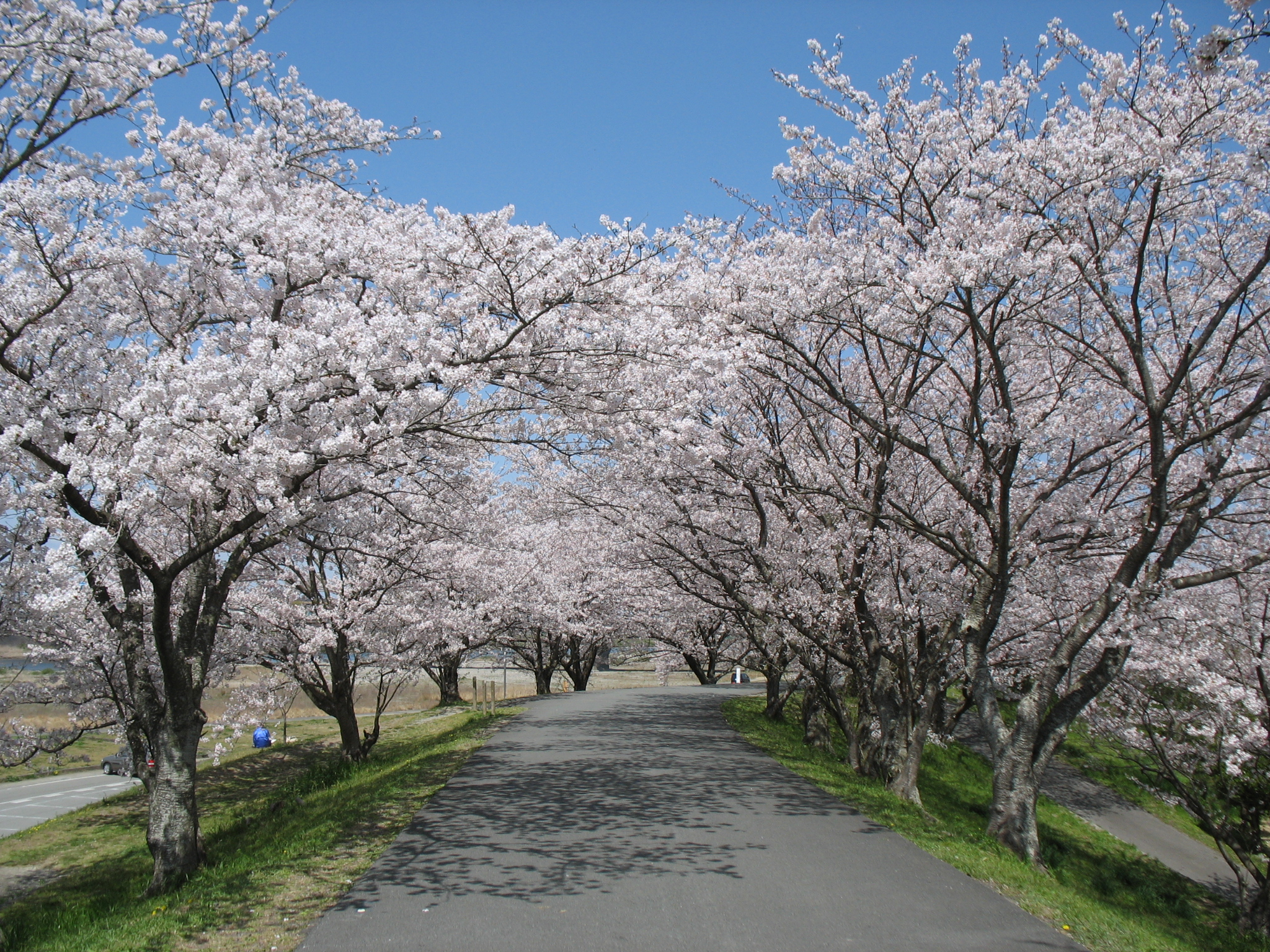 Cherry Blossom "Tunnel" along the Miya River, the city of Ise, Mie Prefecture, Japan